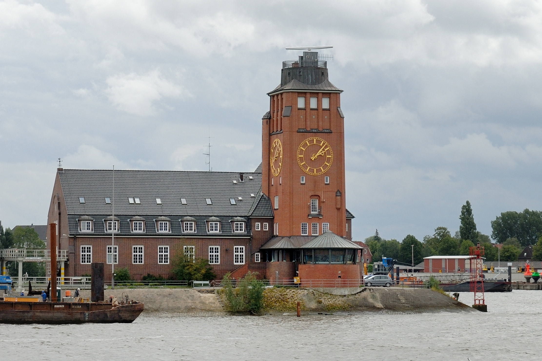 Pilot house Seemannshoeft, Hamburg, Germany